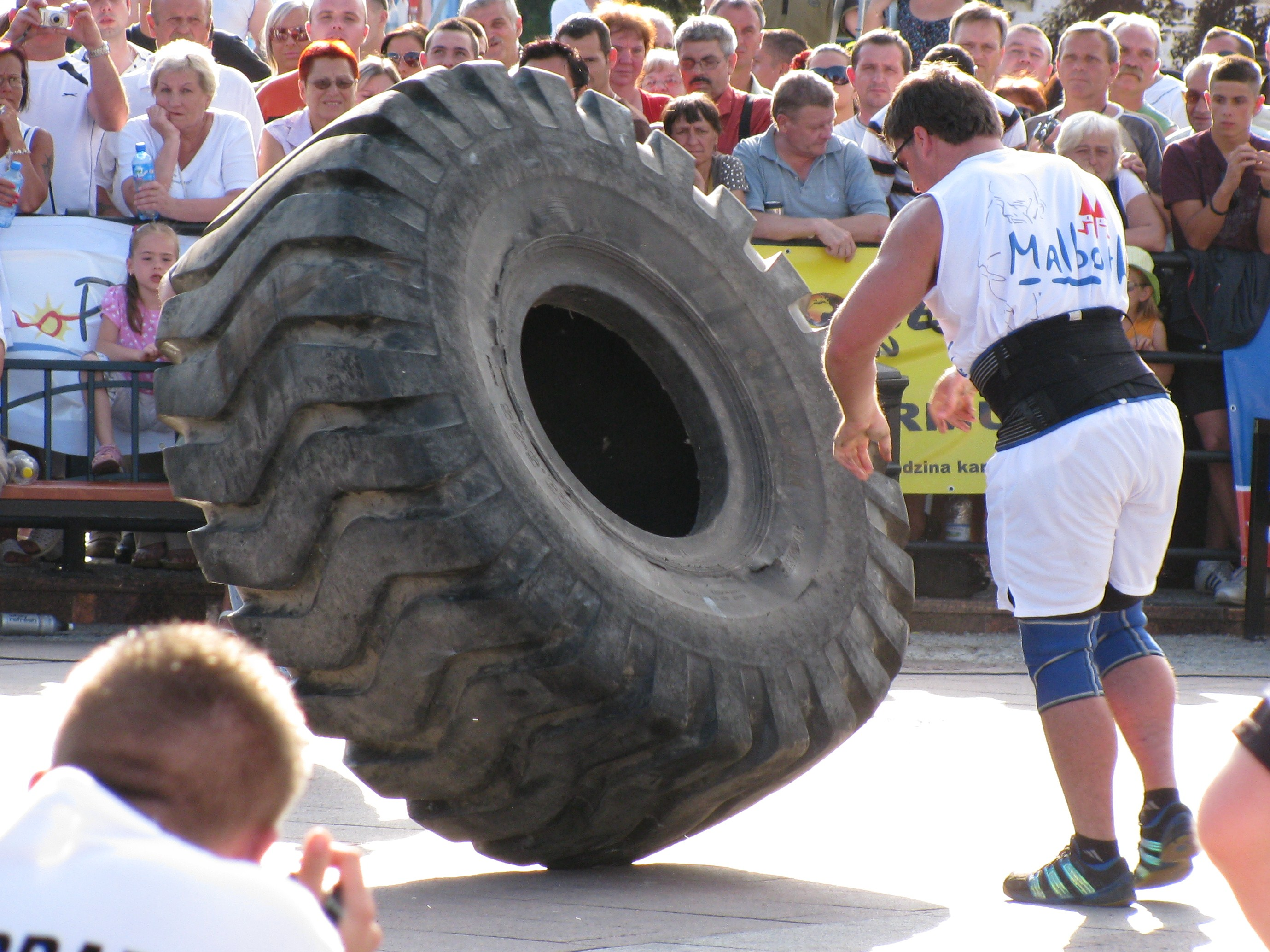 Rolands Gulbis - a strength athlete from Latvia at the Tyre Flip.